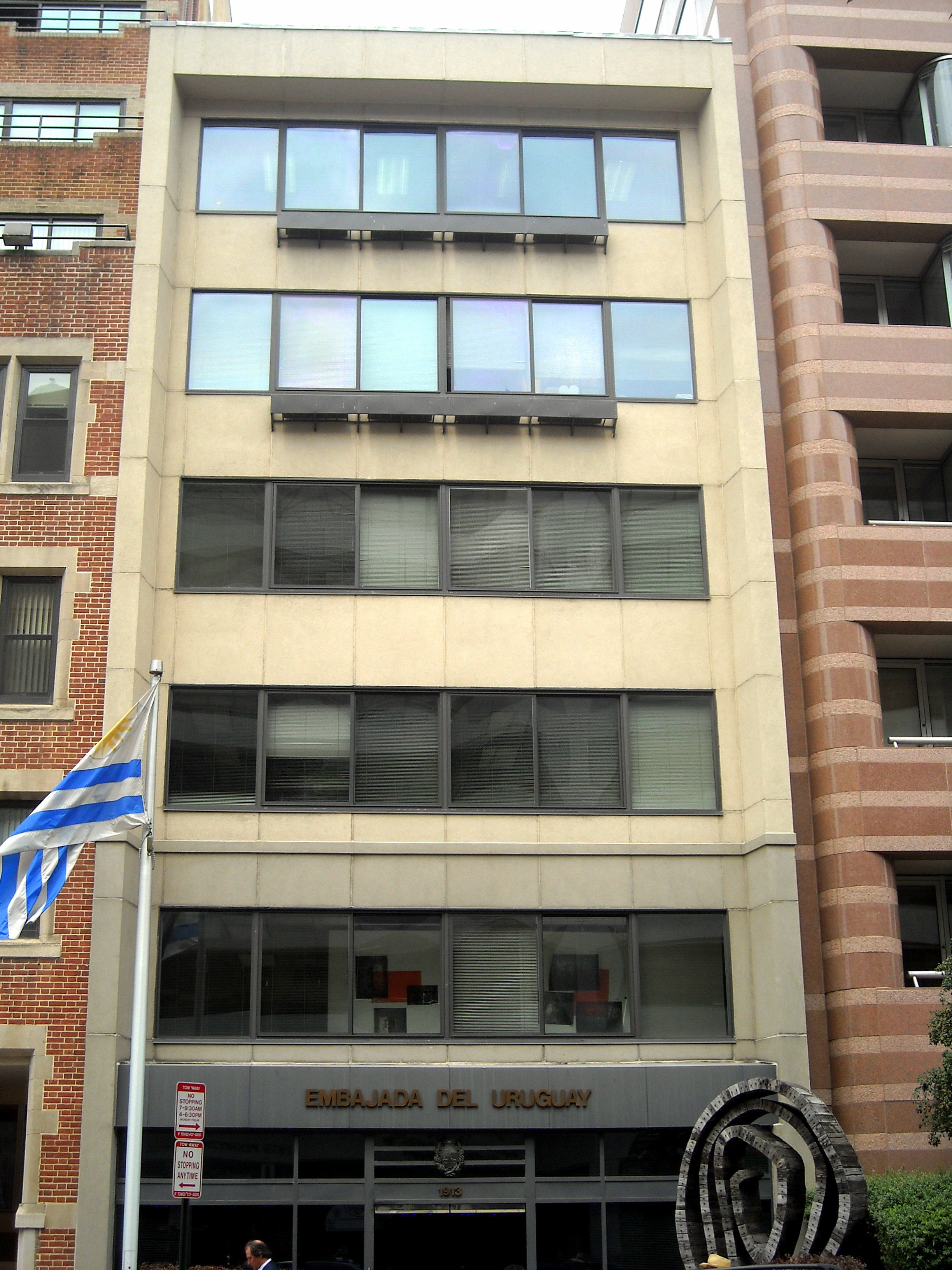 The Embassy of Uruguay at 1913 I St, NW in Washington, D.C.